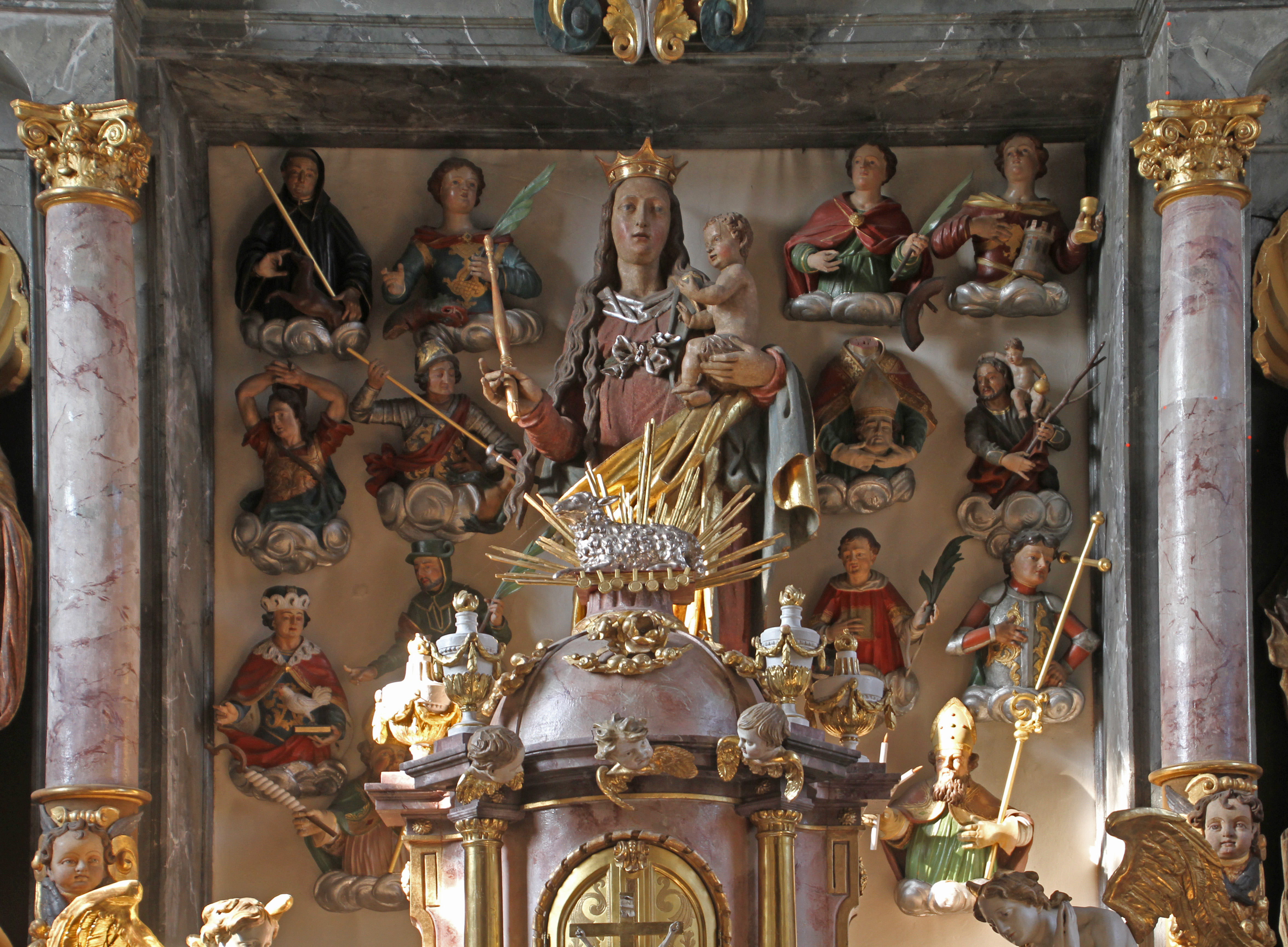 Church of St. Barbara in Oberschwappach, interior decoration.